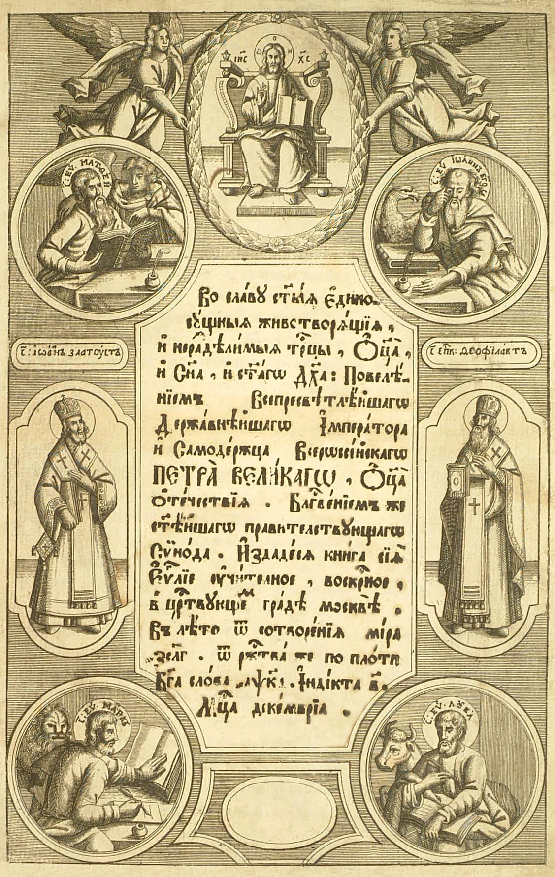 Page of "Didactic Gospel"